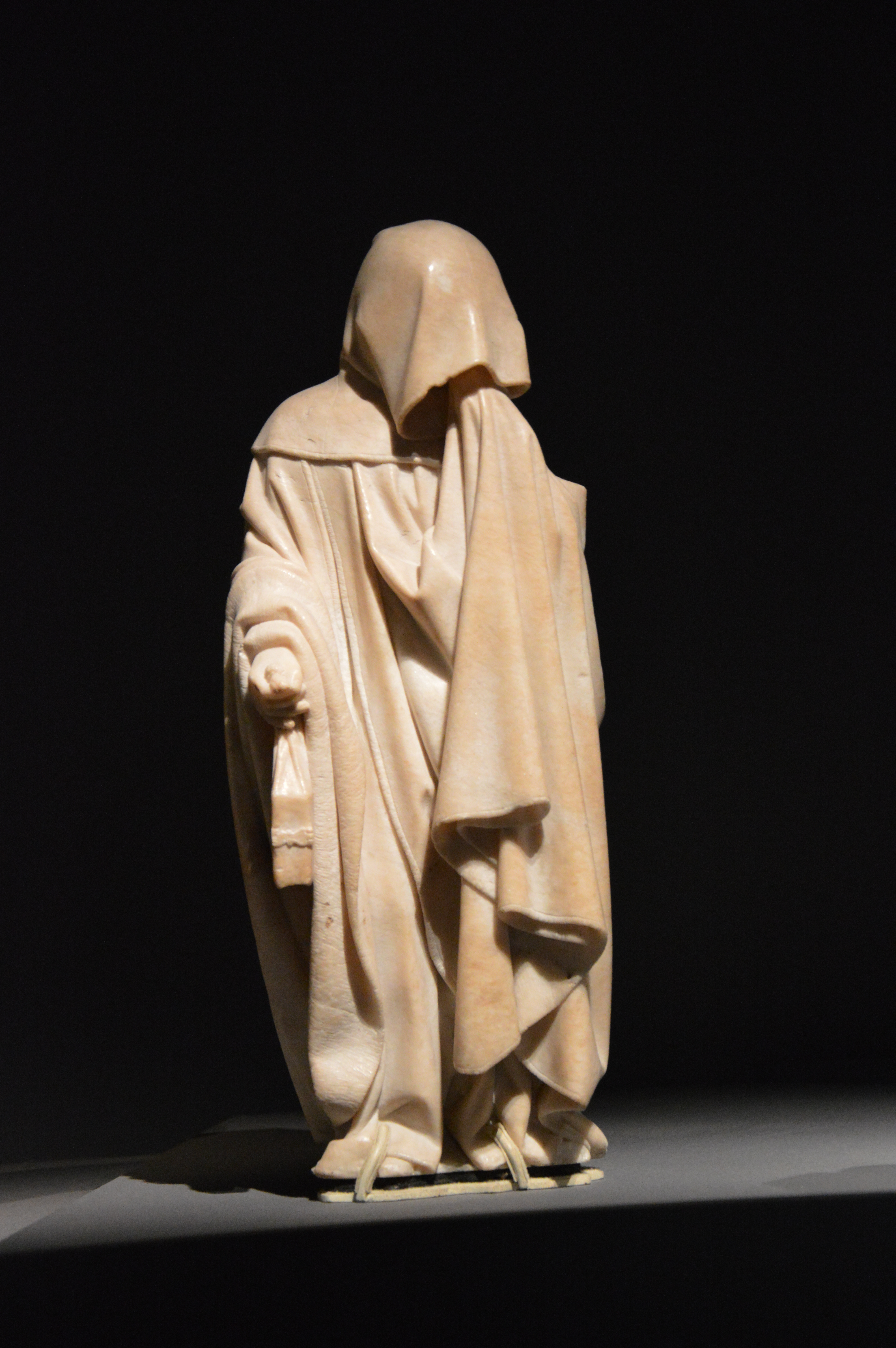 Mourner from the tomb of John the Fearless - Jean sans Peur. No 51.